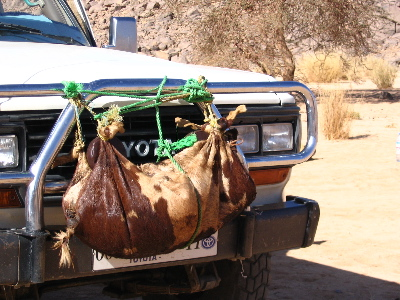 Goatskin used as a water reservoir in Algeria.